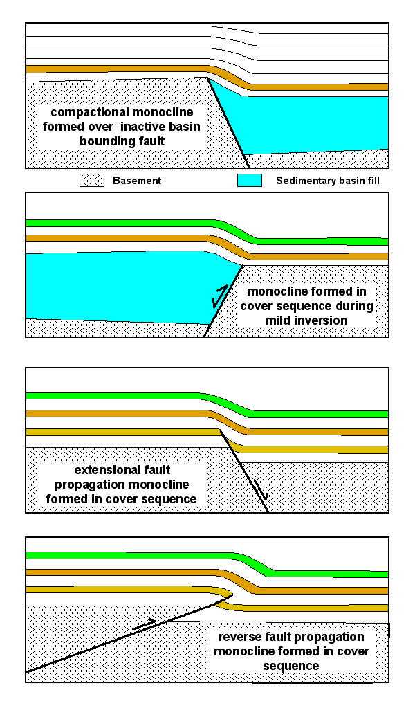 Some of the ways that monoclines can form.